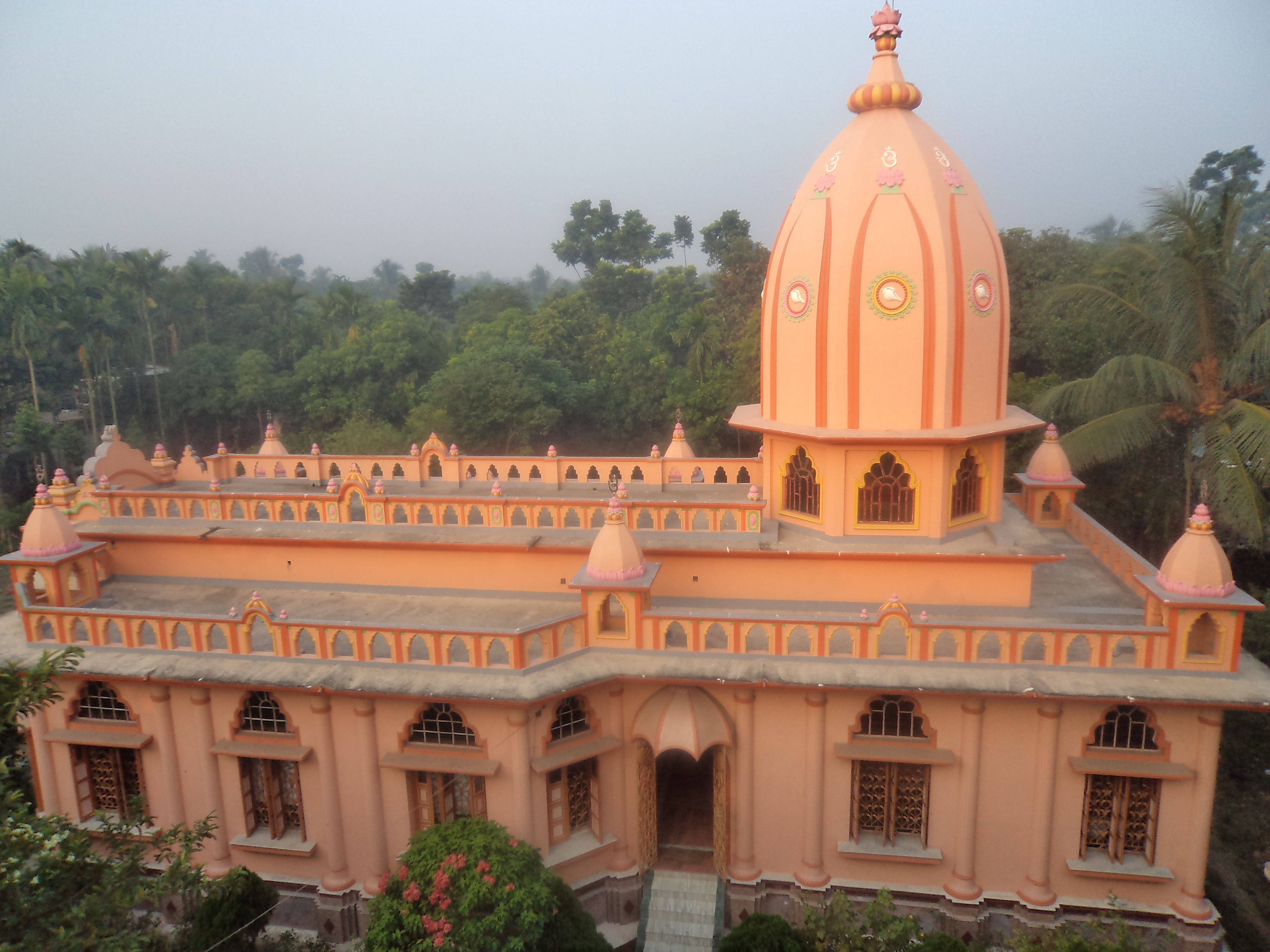 From the top.